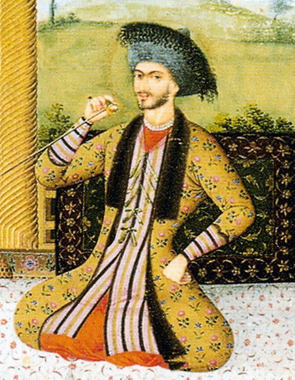 Suleiman I of Persia.